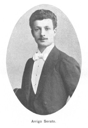 Photograph of Arrigo Serato (1877-1948), Italian violinist.